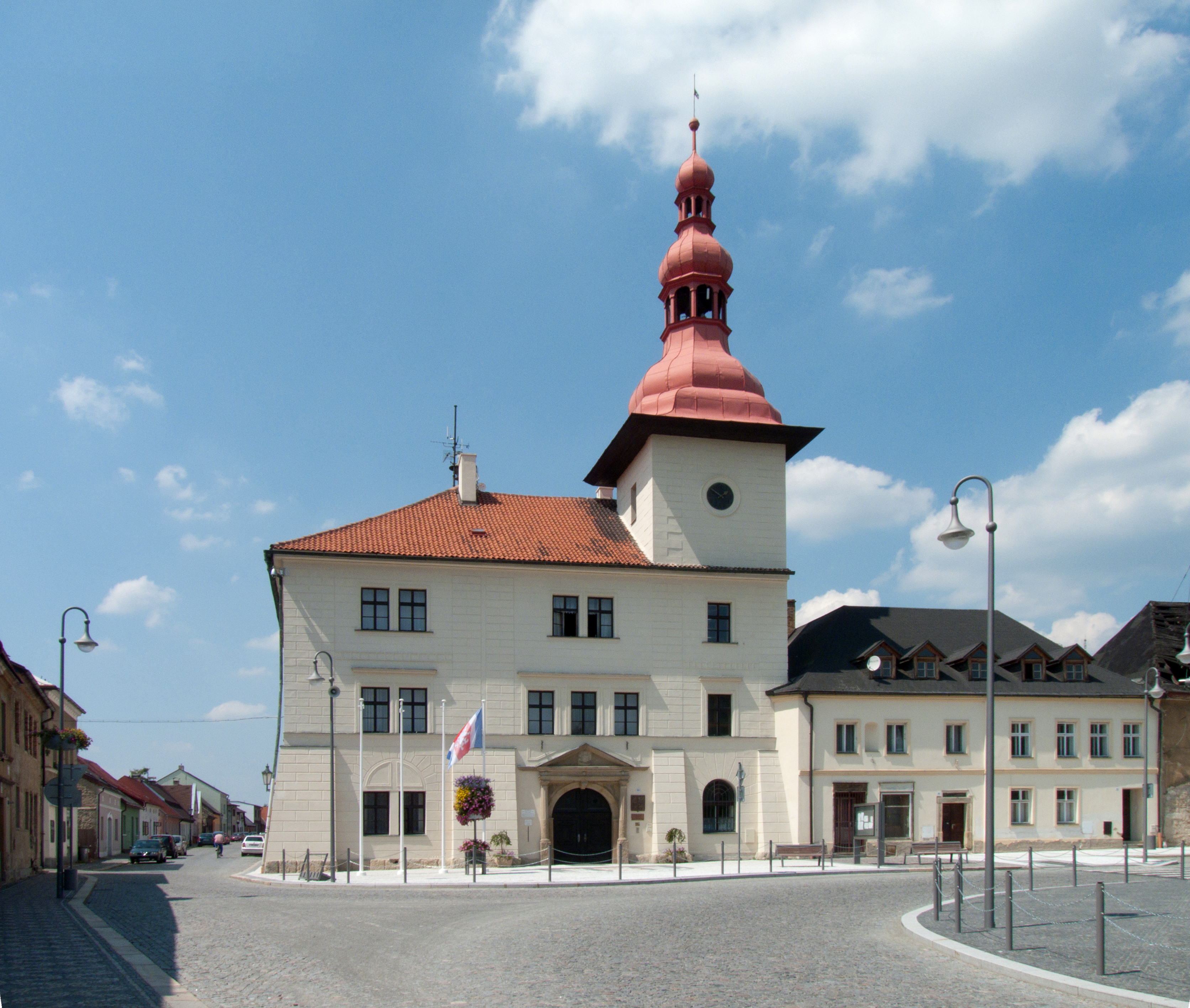 Town hall in Bělá pod Bezdězem, Česká Lípa District, Czech Republic